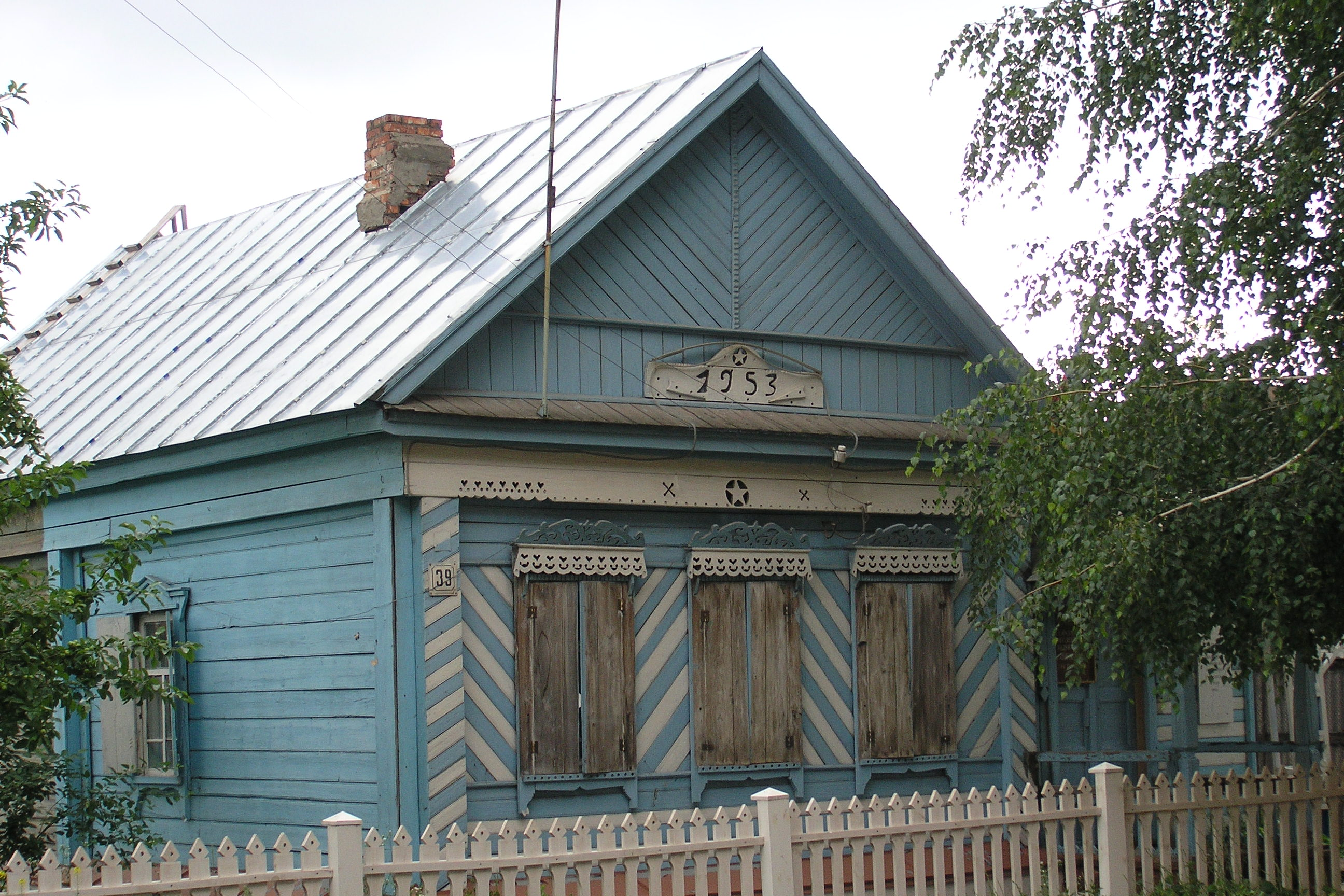 First build that was moved from Stavropol to new city place in 1953